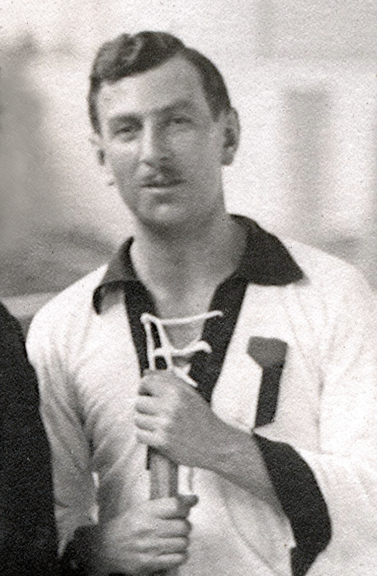 Valentin Loos; VII Olympiade, Antwerp 1920